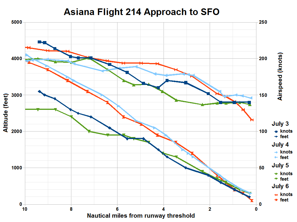 Asiana flight 214 final approach glide paths on July 3, 4, 5, and 6, 2013. All were the same type of aircraft. Three landed on 28L, while the July 5 flight used 28R. The July 6 flight struck the seawall before landing.